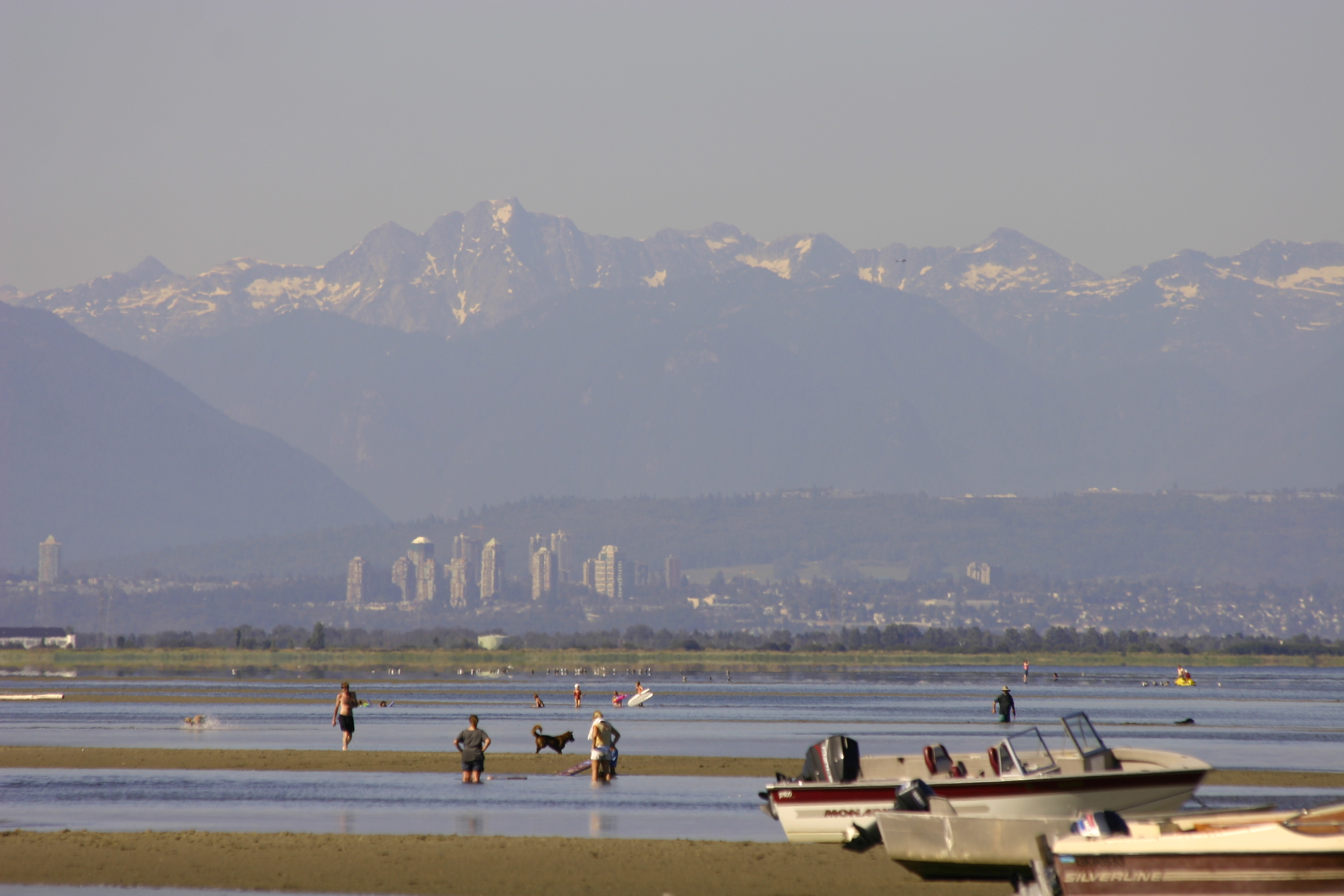 Looking north on a clear summer day from Maple Beach